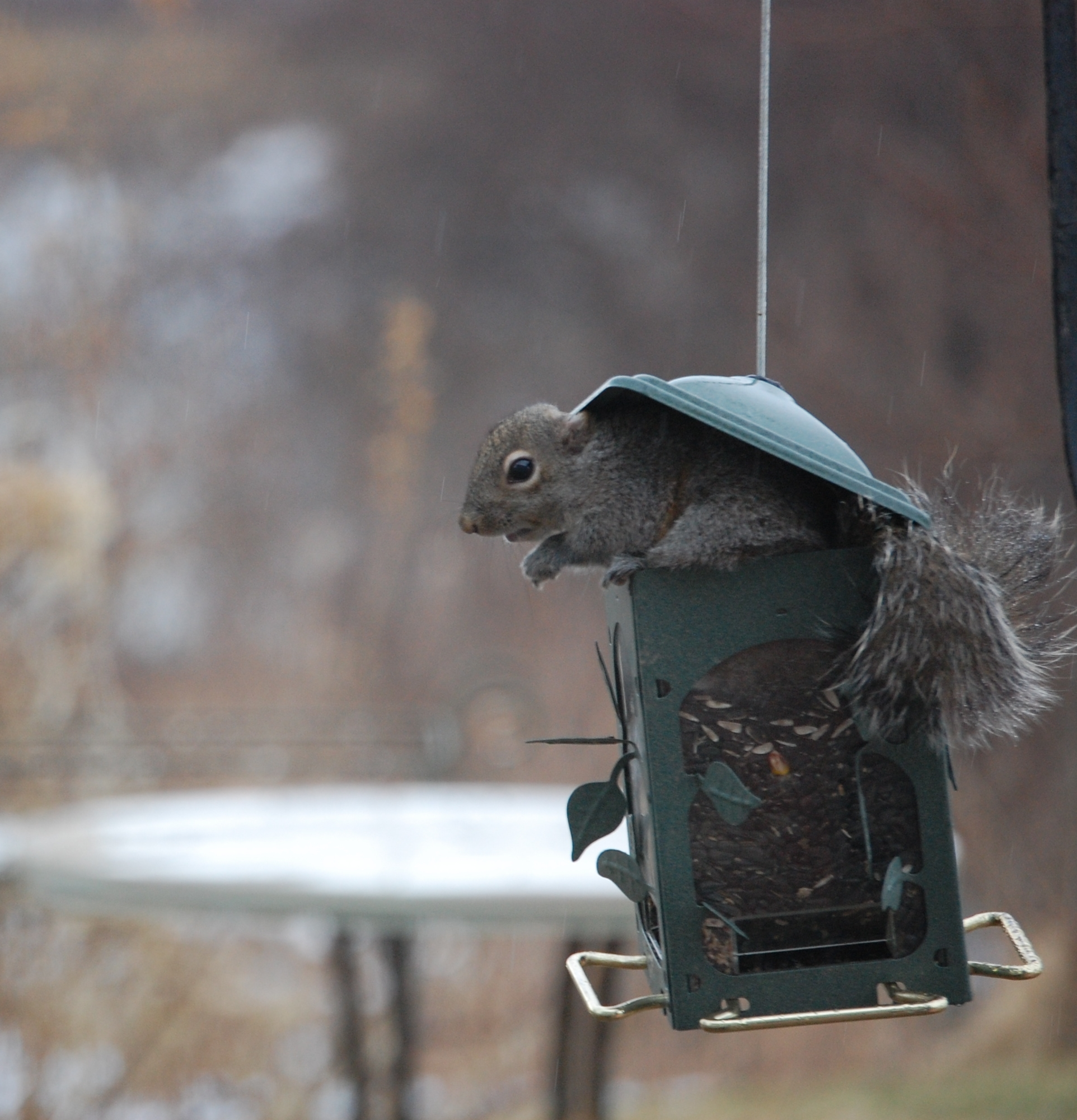 Squirrel eating from bird feeder. This work is derived from Squirrel_eating _from _feeder.JPG file.